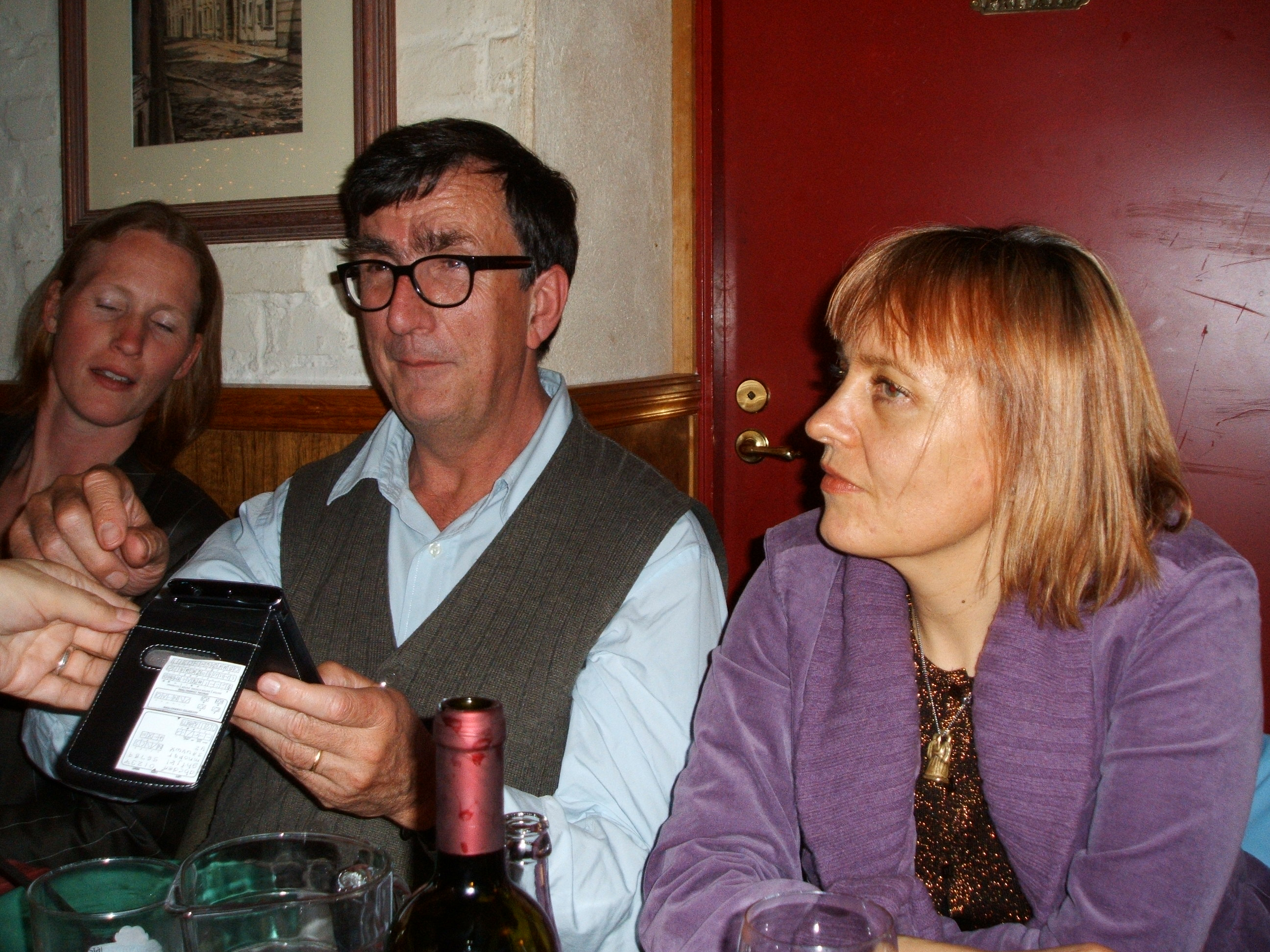 Bruno Latour in Goteborg, 2006